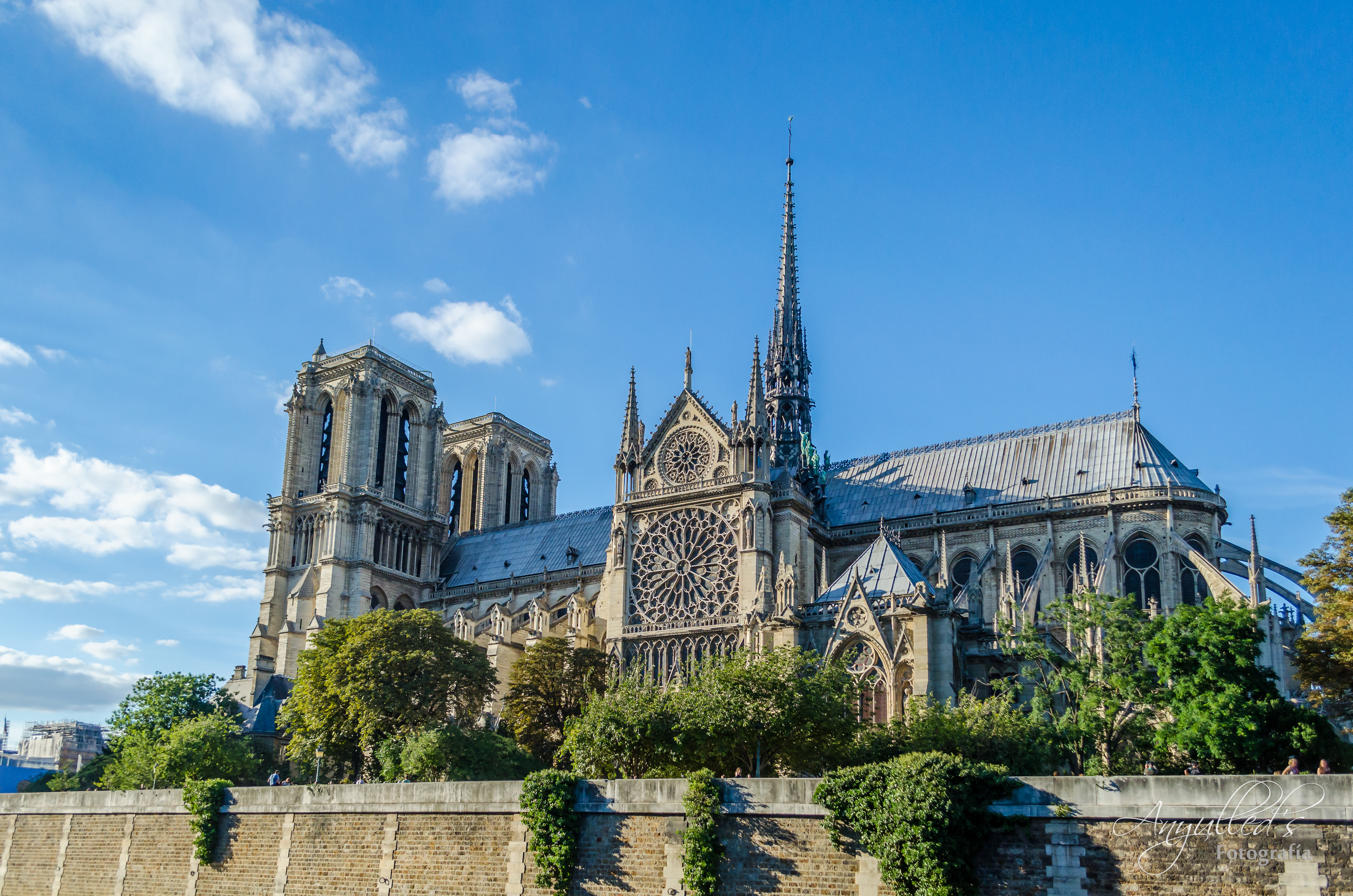 South facade of Notre-Dame de Paris.